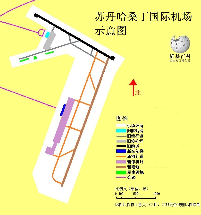 Sketch map of Sultan Hasanuddin International Airport